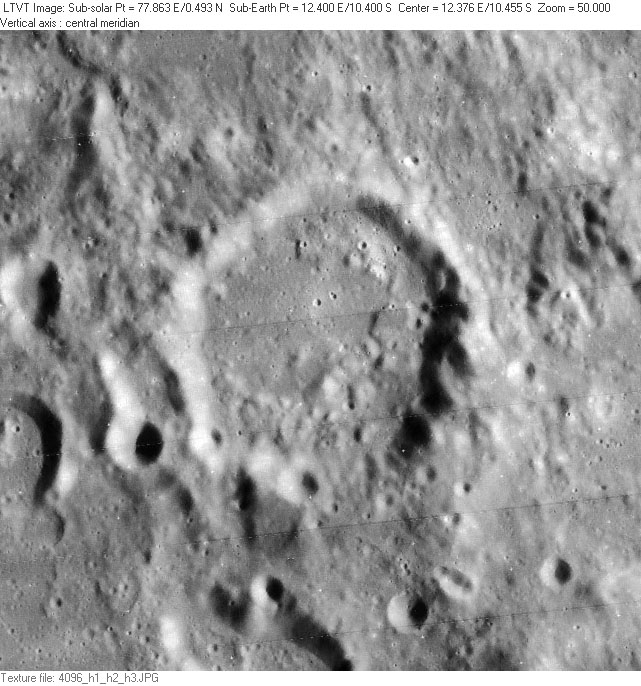 A number of lettered craters associated with Andel are visible in this view. Part of the ancient 27-km diameter Andel M is visible in the upper left corner, below that is 8-km Andel N, and below that the eastern half of 14-km Andel A.